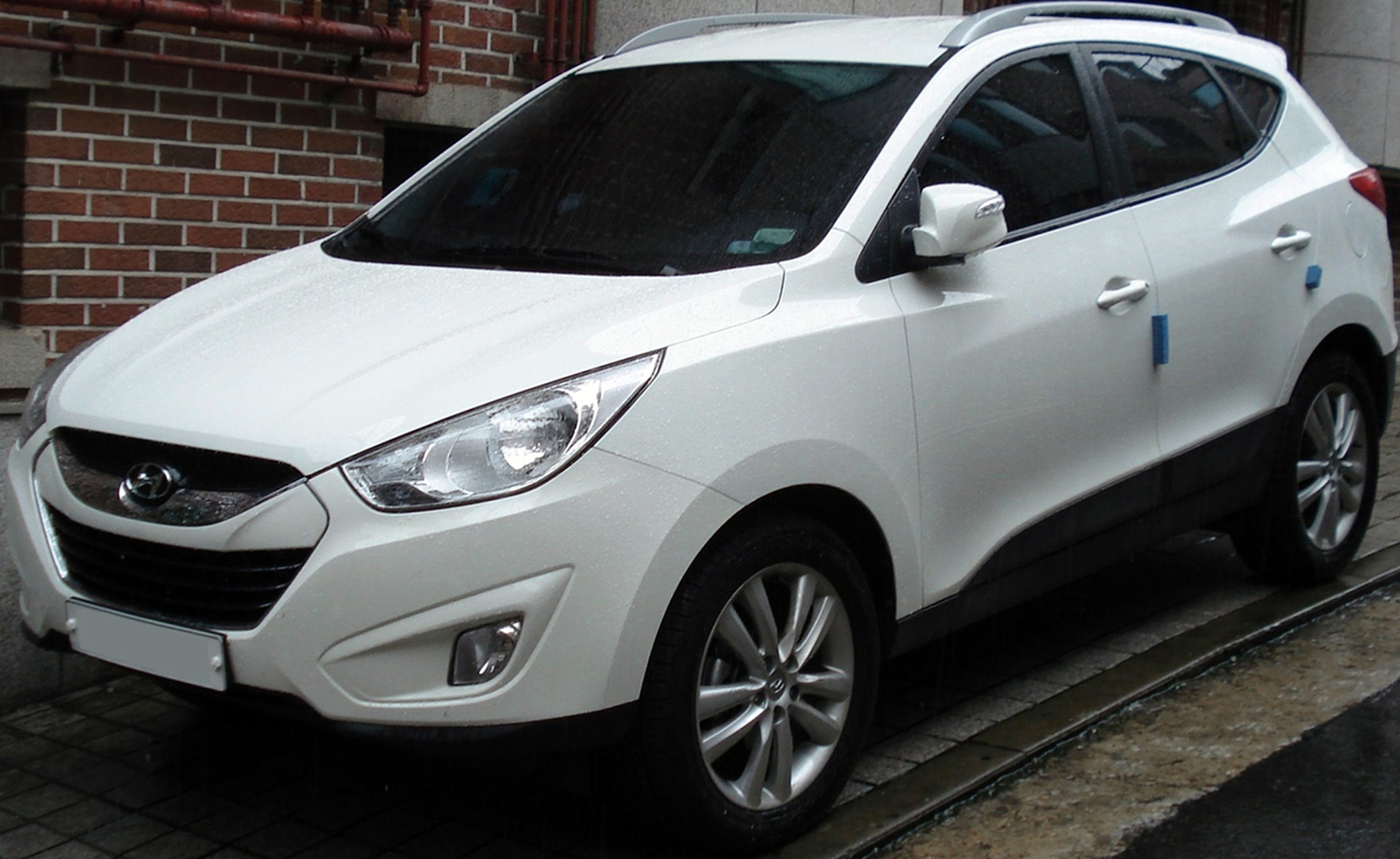 Hyundai Tucson ix